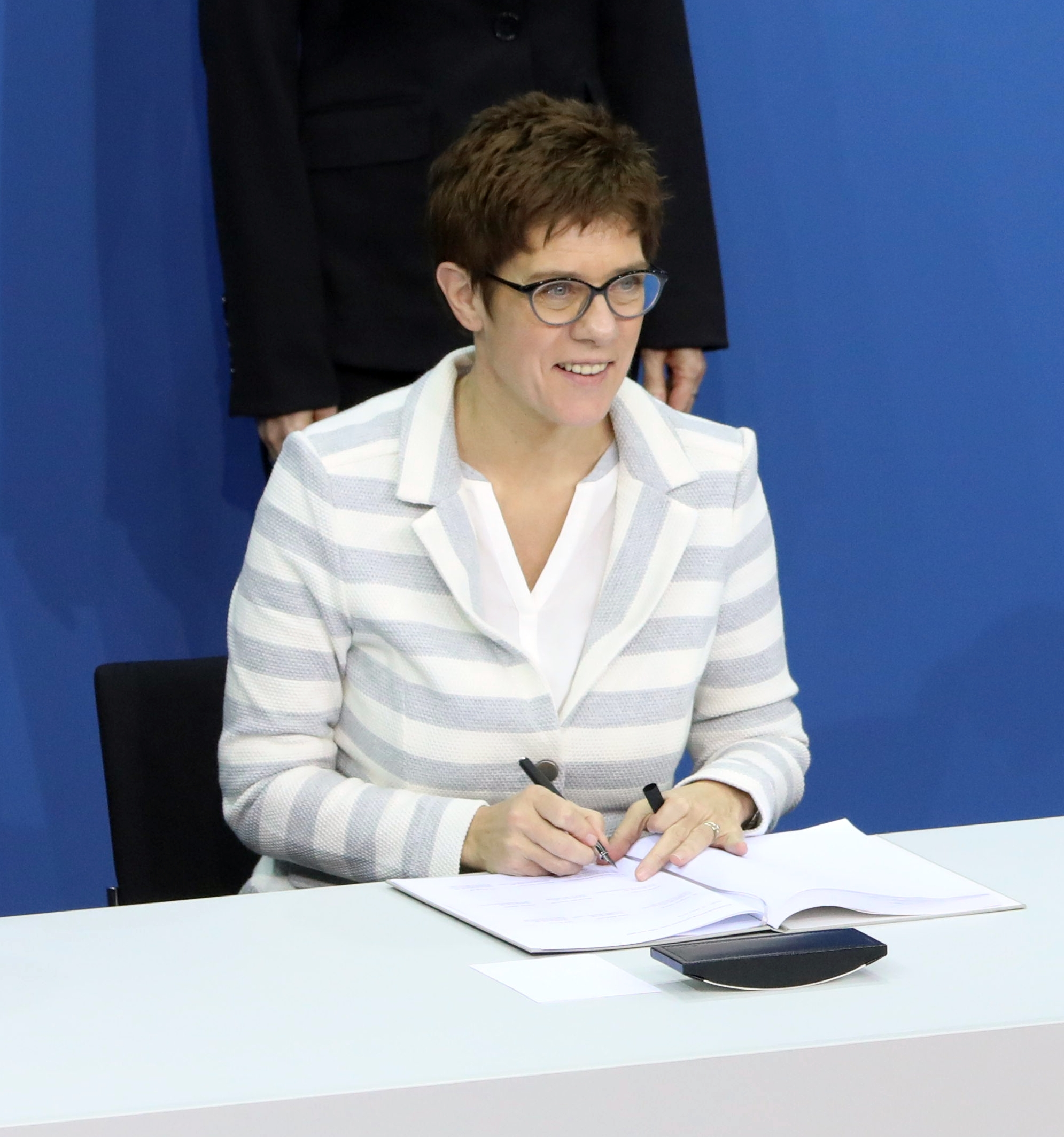 Signing of the coalition agreement for the 19th election period of the Bundestag: Annegret Kramp-Karrenbauer